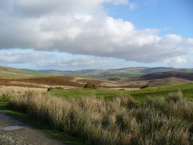 Gilwern Hill in autumn An open view across the moors and hills of Radnorshire.